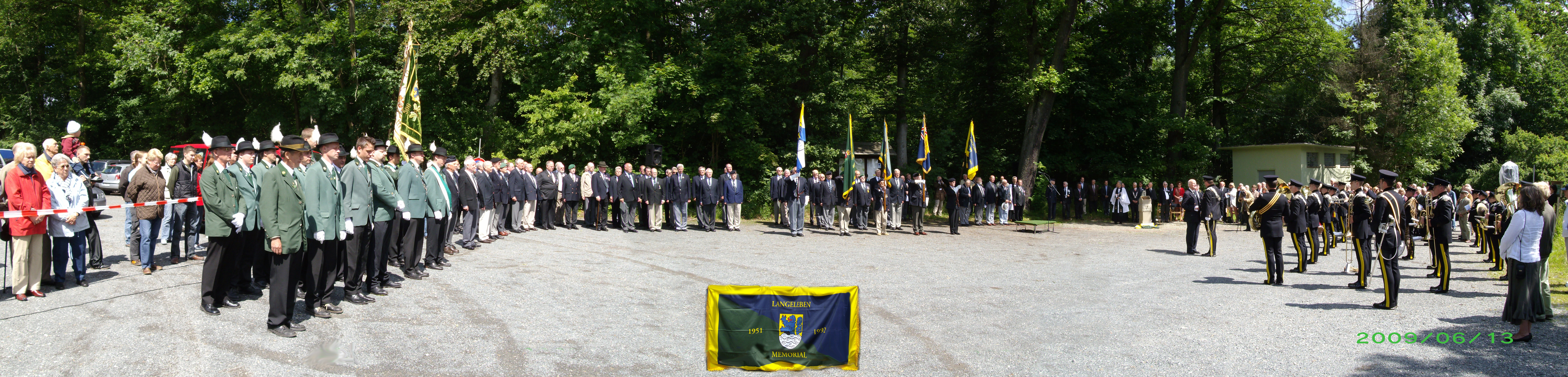 Dedication Parade of the Memorial Stone in Langeleben on 13th of June 2009